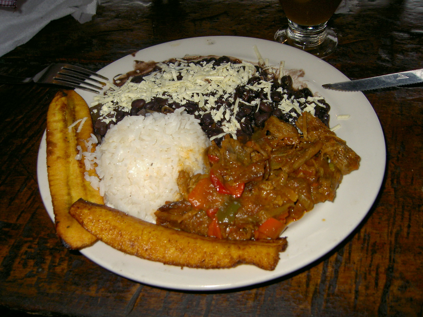 (Seamar31, Pabellón Criollo from a restaurant south of Maracay, 22 July 2006)